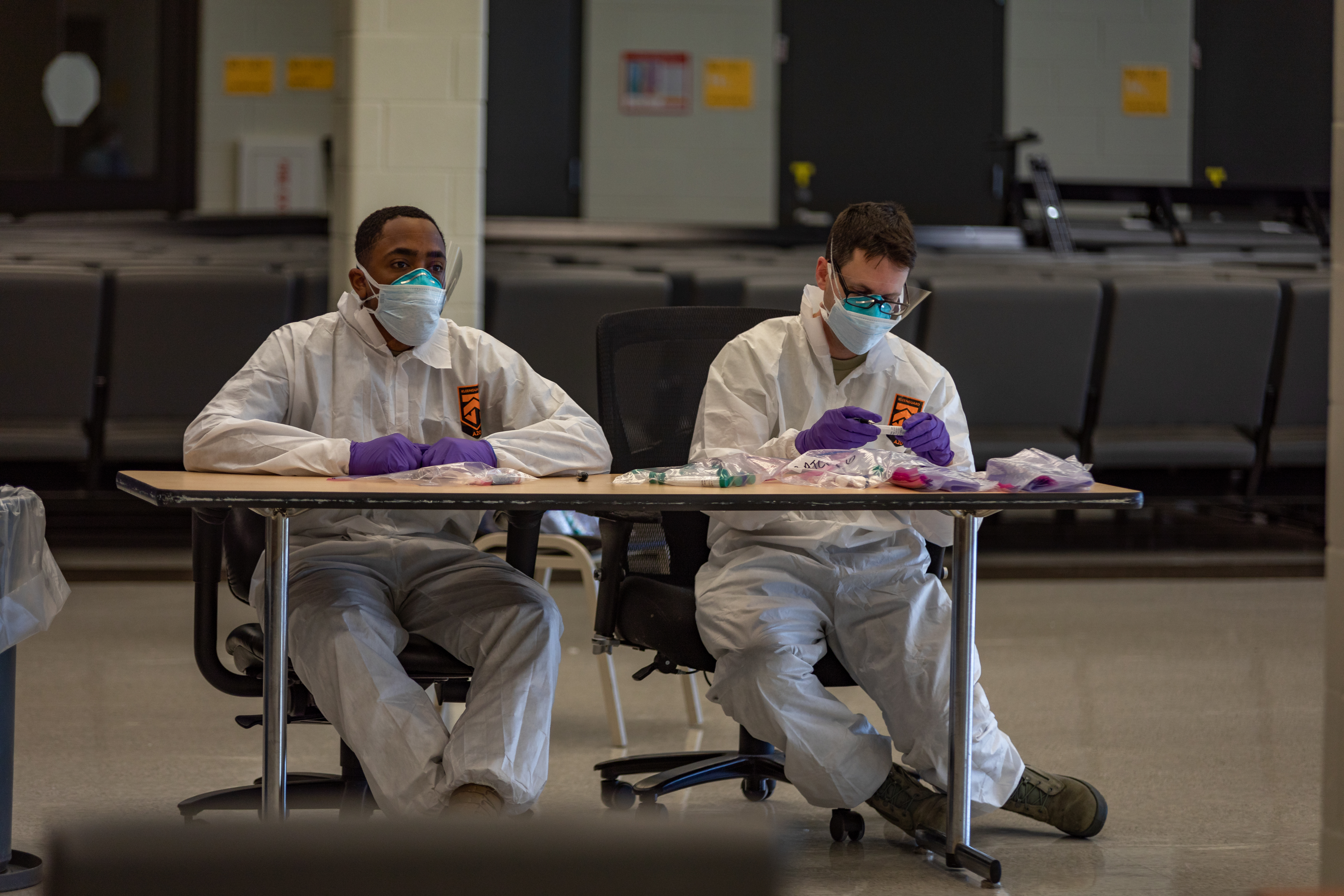 Tennessee National Guard Soldiers assigned to the Military Medical Response Force (MMRF), administer COVID-19 tests in Bledsoe County, TN, April 10. The MMRF was stood up in response to the outbreak of COVID-19, which stands for coronavirus 2019, to augment medical testing through the state. (Photo by U.S. Army Sgt. Sarah Kirby)